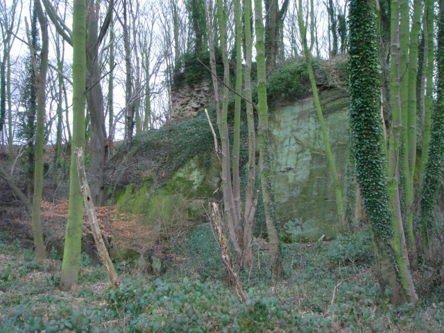 A view of Horston Castle as it stands today